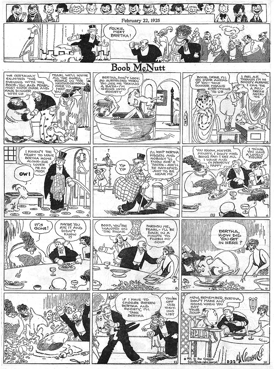 Copy of the Boob McNutt cartoon strip from 1925. A renewal search was done in artwork for the years 1952 and 1953. There were no listings for Boob McNutt, the Star Company or Rube Goldberg. There's no evidence copyright continues to be claimed on this.